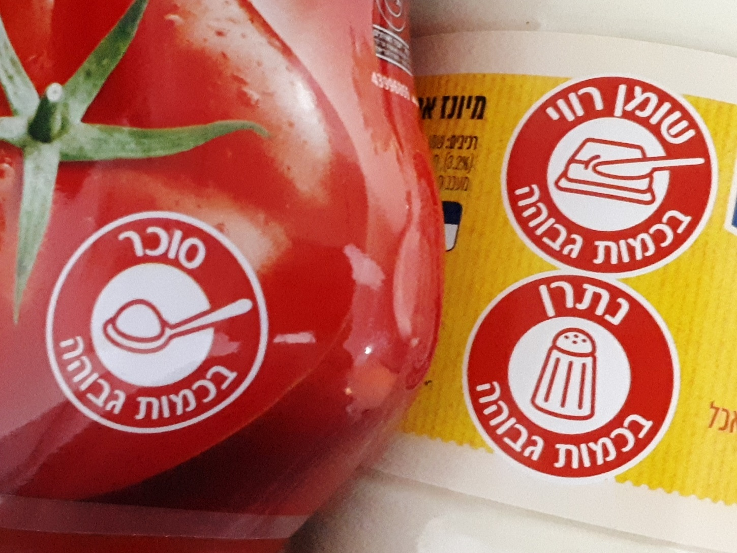 Food product red circle labeling. Israel 2020. High amounts of sugar. High amounts of saturated fats. High amounts of Sodium.